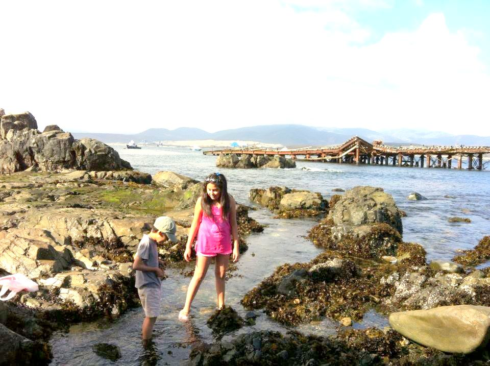 Muelle de Los Vilos